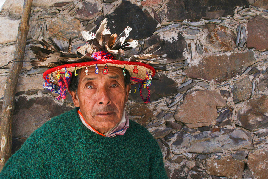 Huichol Shaman in Bolaños, Jalisco.